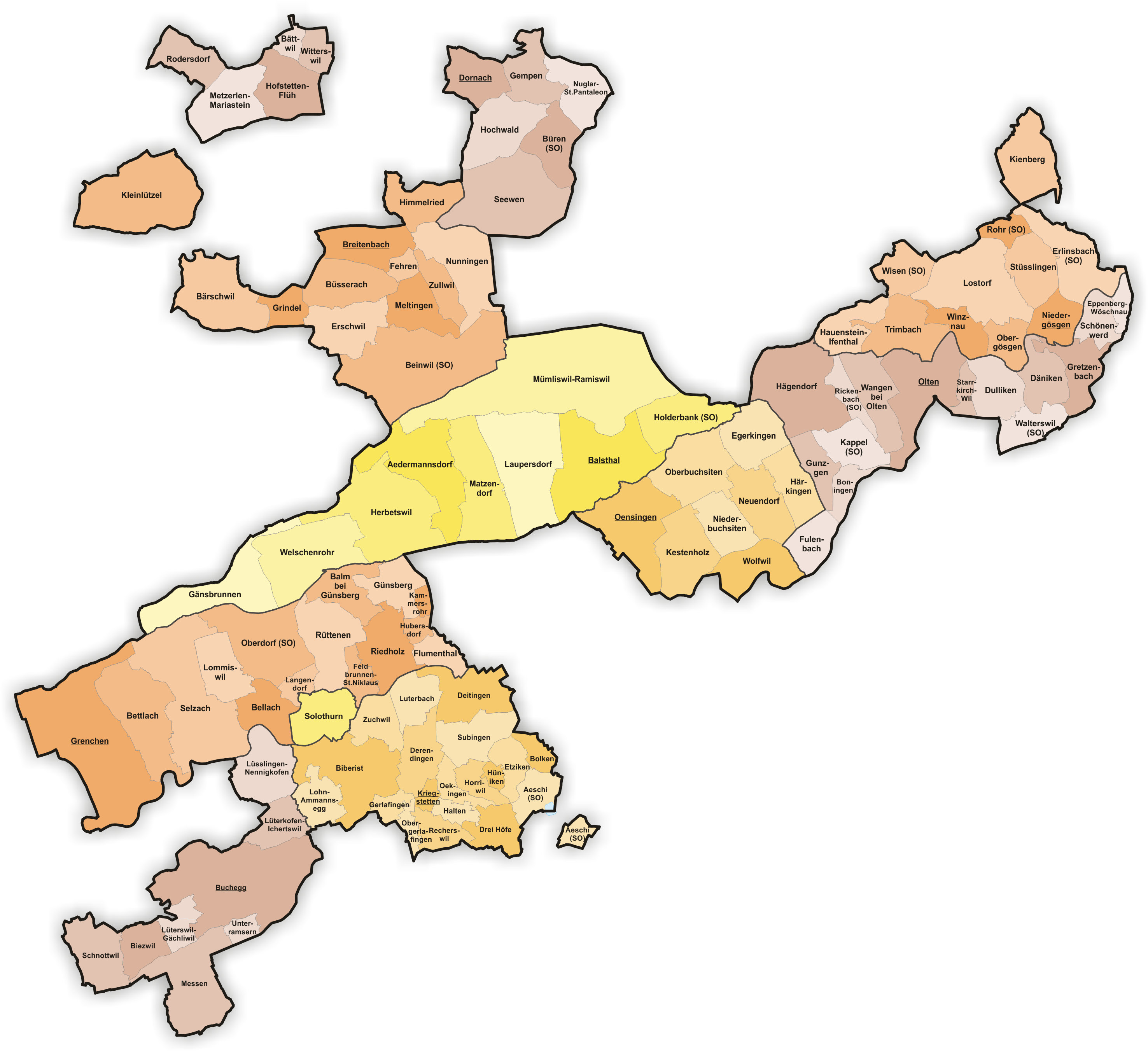 Municipalities in Canton Solothurn